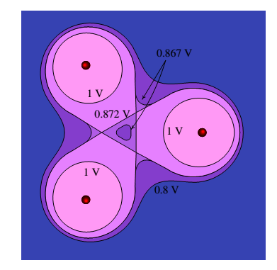 Equipotential surfaces for a 3 positive charges system